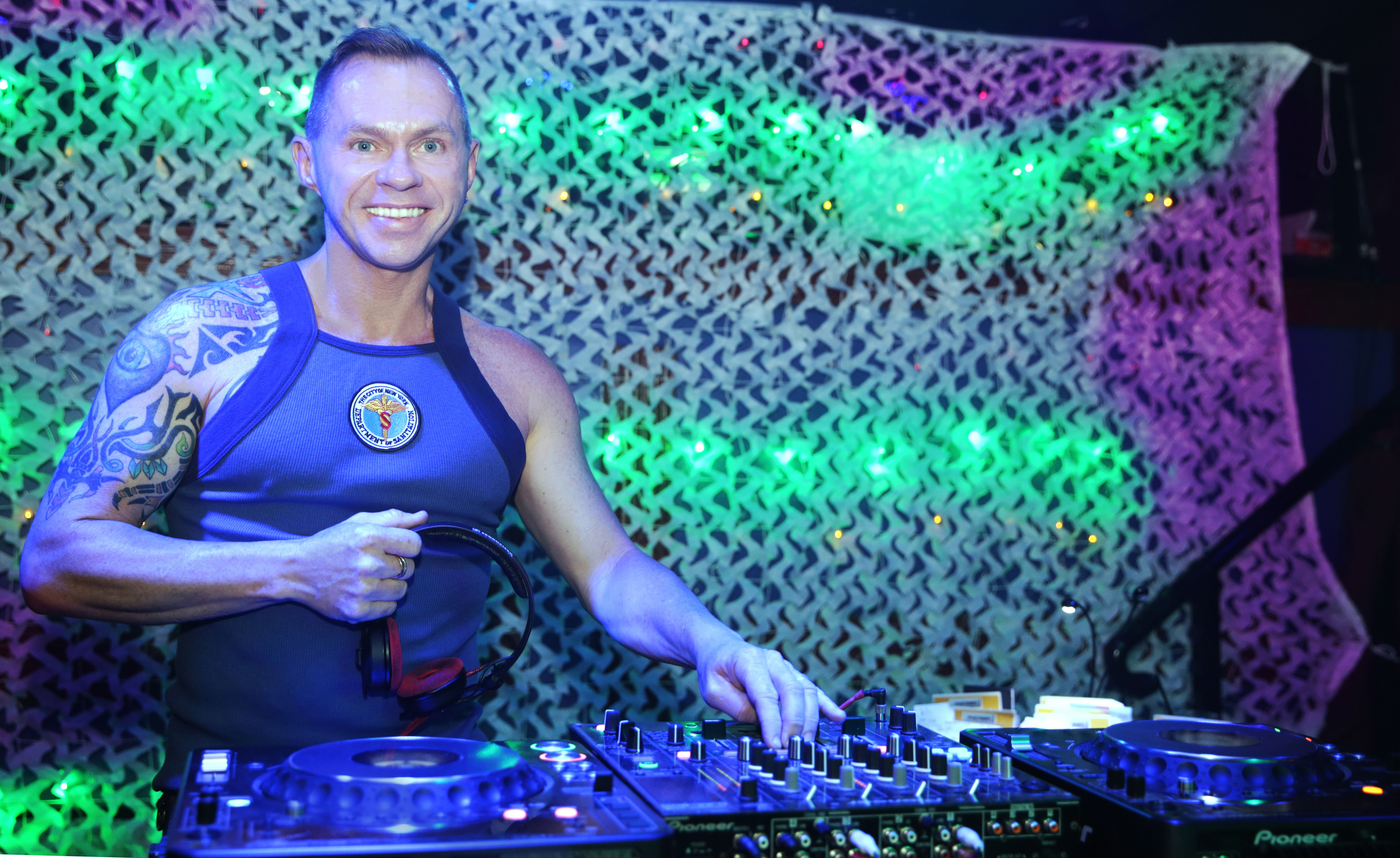 Photo of Mark Alsop by Ann-Marie Calilhanna.